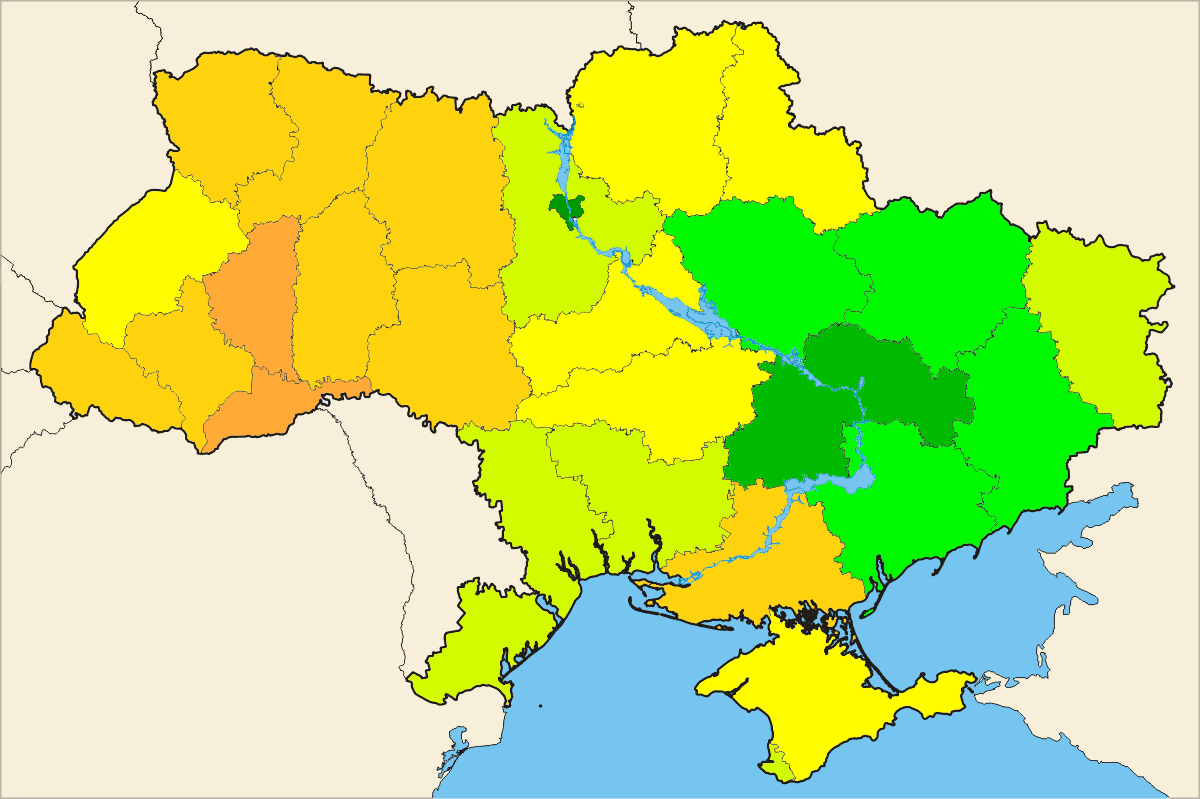 Ukraine GRP per capita 2008 US dollars